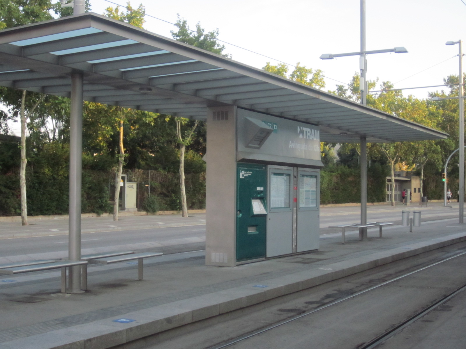 Avinguda de Xile Trambaix stop.